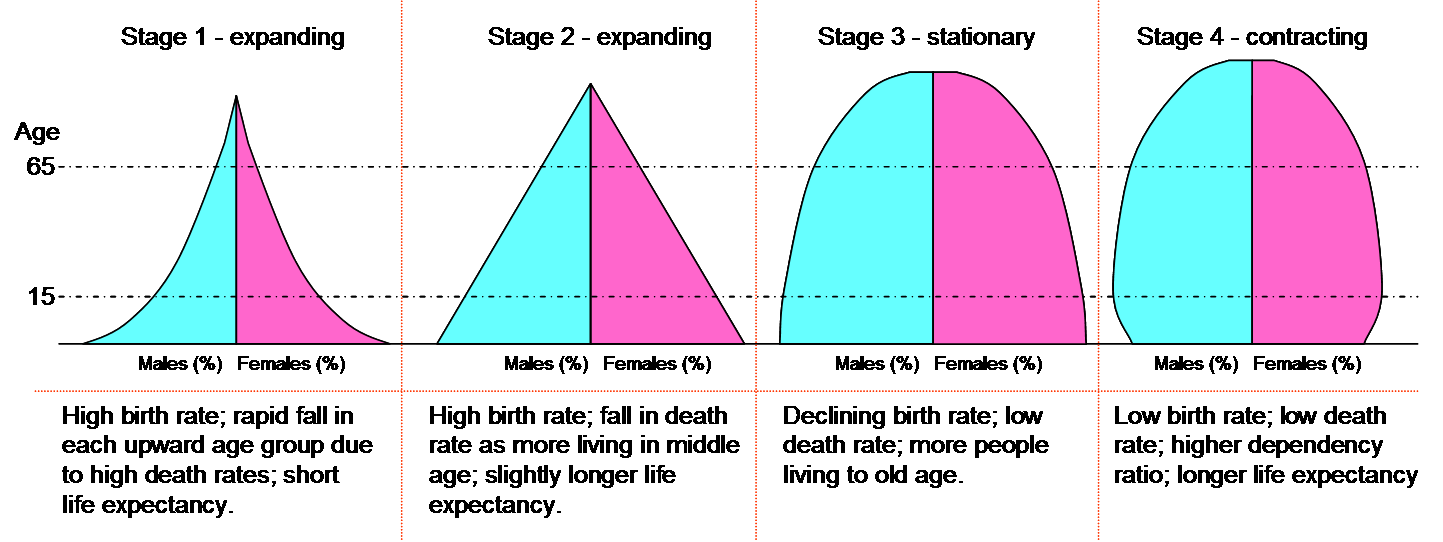 Demographic Transition Model (DTM) pyramids